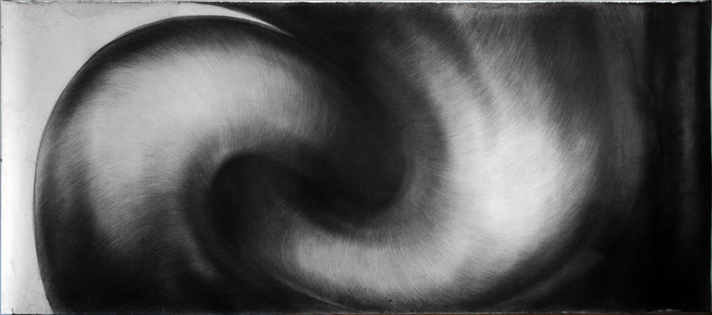 Jiří Kornatovský: Eternal story (1990-1994), charcoal on cardboard, 220 x 500 cm